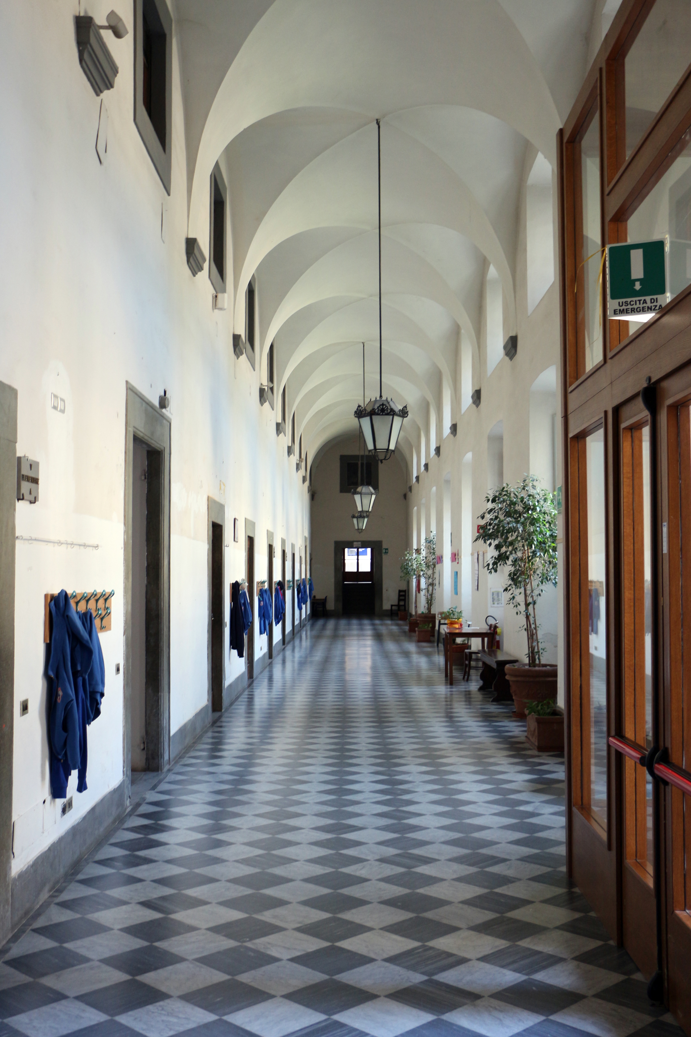 Collegio Cicognini